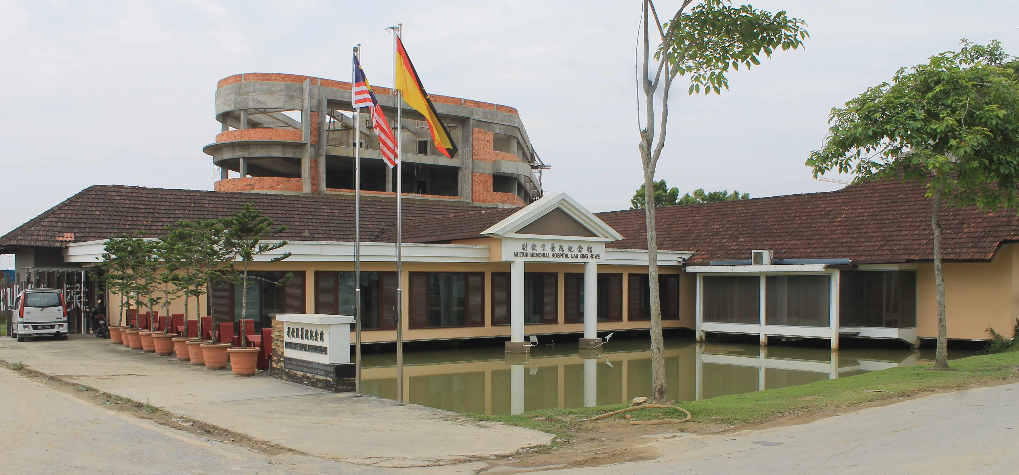 Lau King Howe Hospital served Sibu people from 1936 to 1994. It was later turned into a memorial museum.